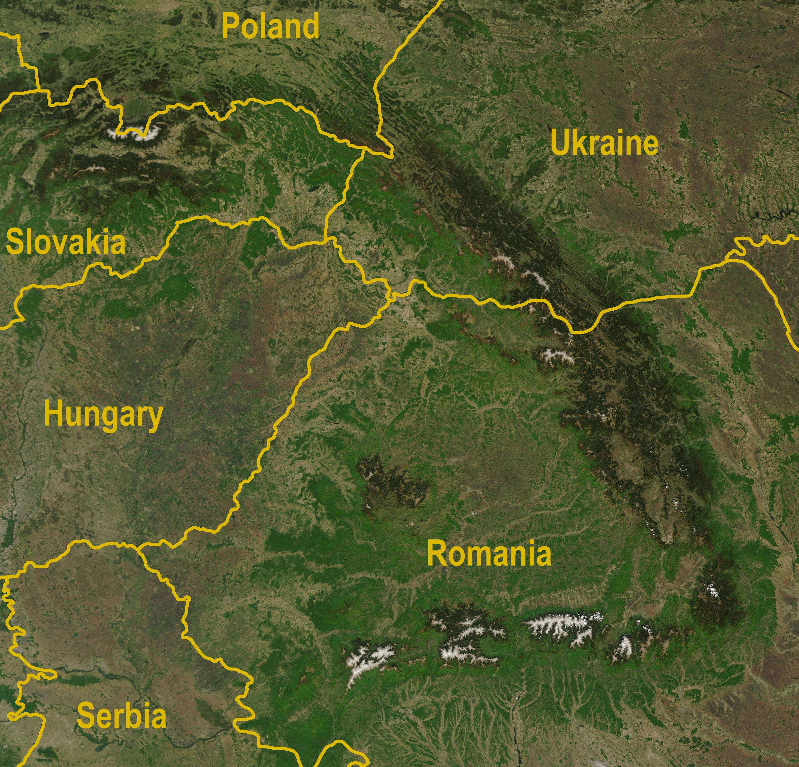 A satellite map of the Carpathians